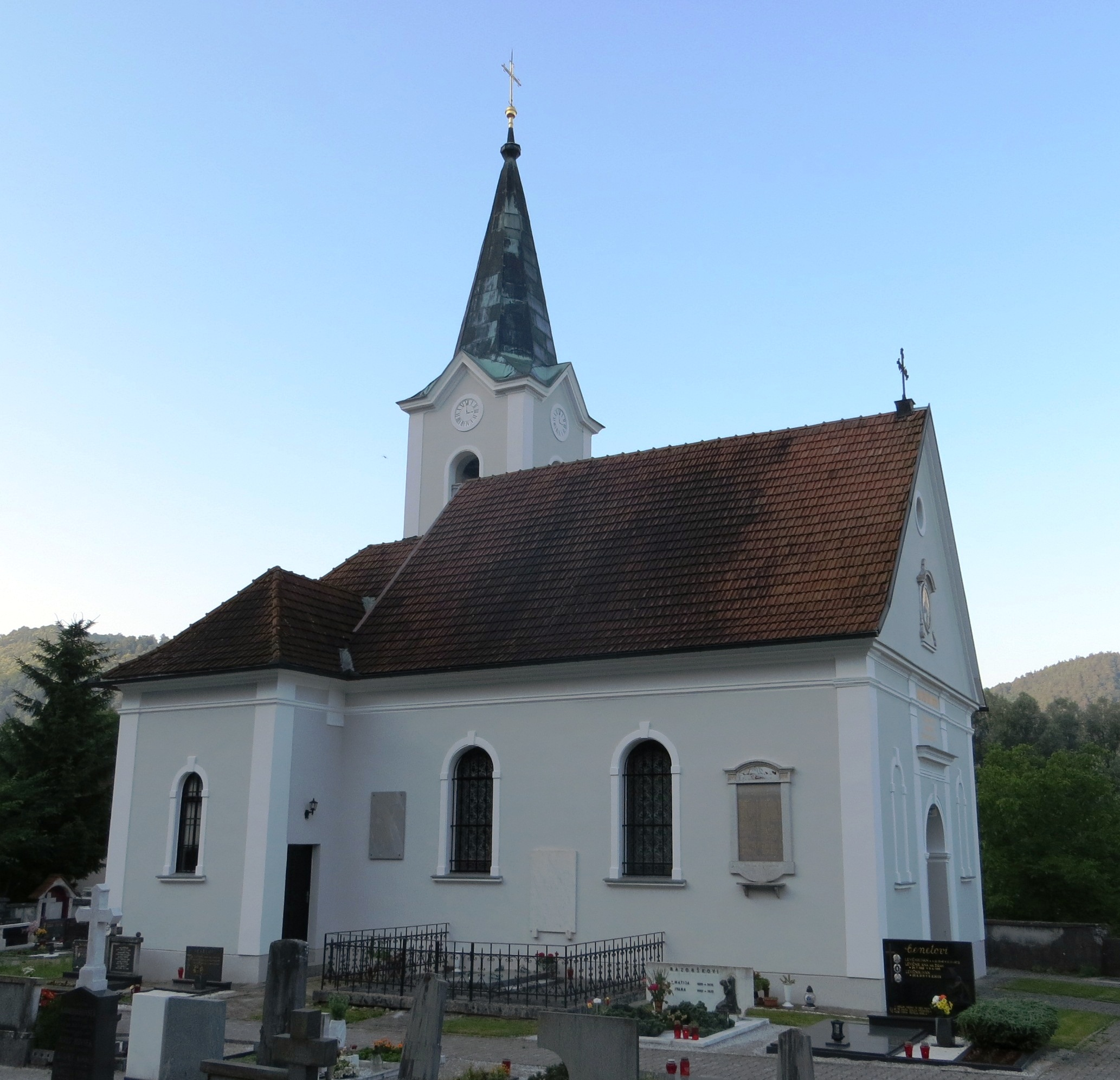 Saint Agatha's Church in Dolsko, Municipality of Dol pri Ljubljani, Slovenia